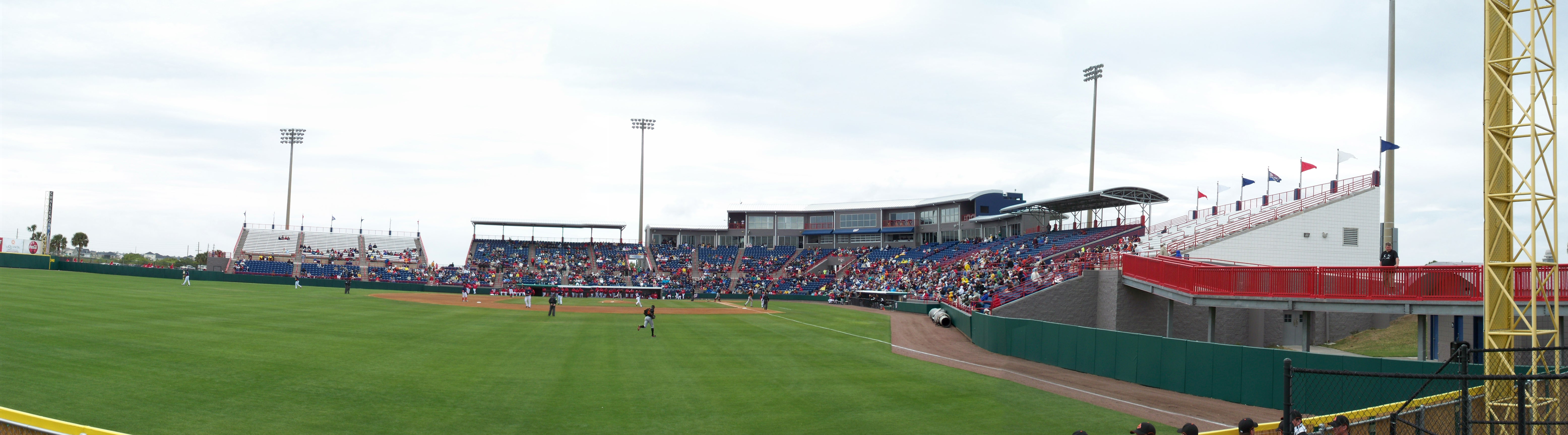 Taken from Left Field Near the Visitor Bullpen